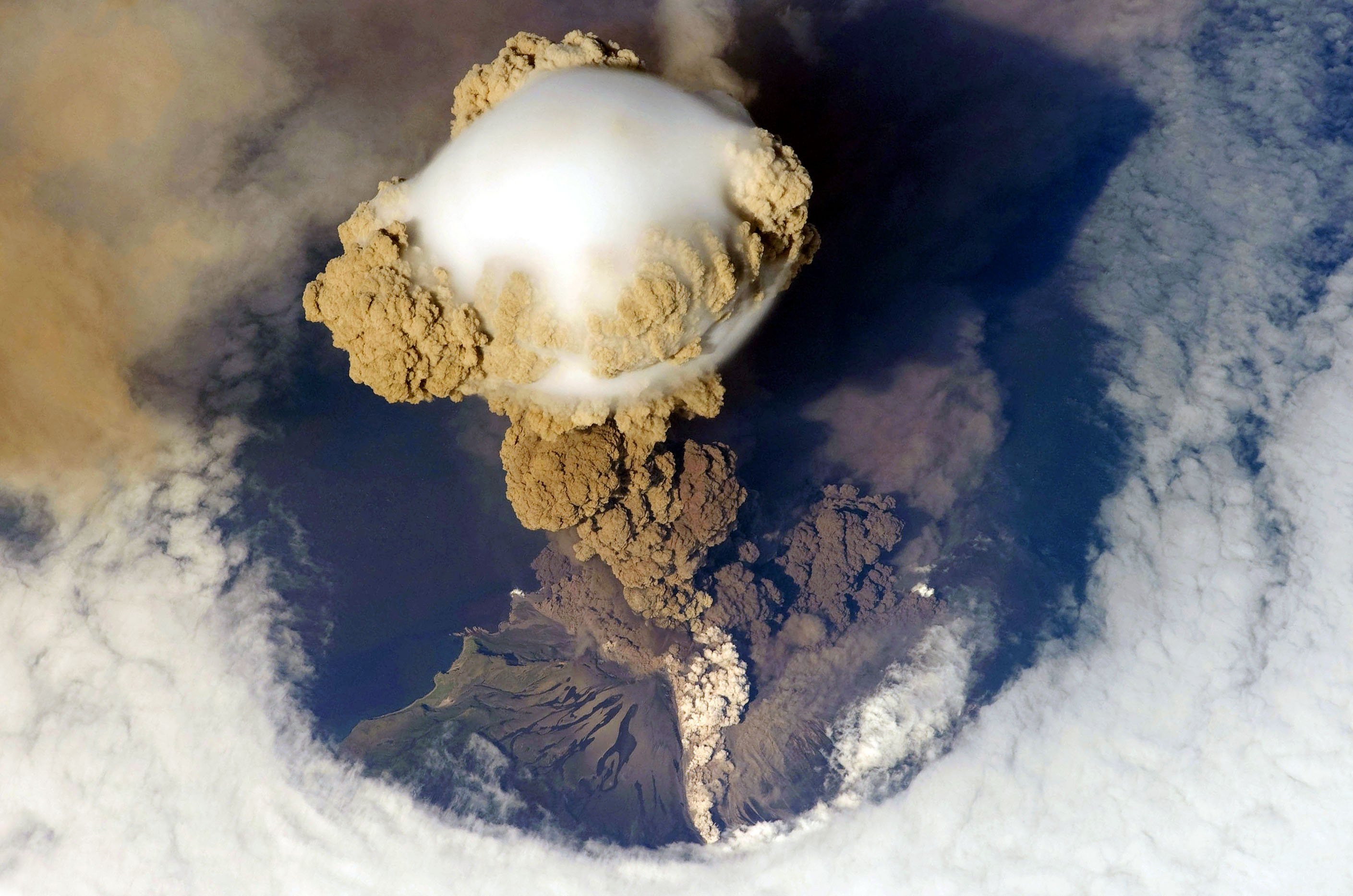 Sarychev Peak Volcano erupts June 12, 2009, on Matua Island